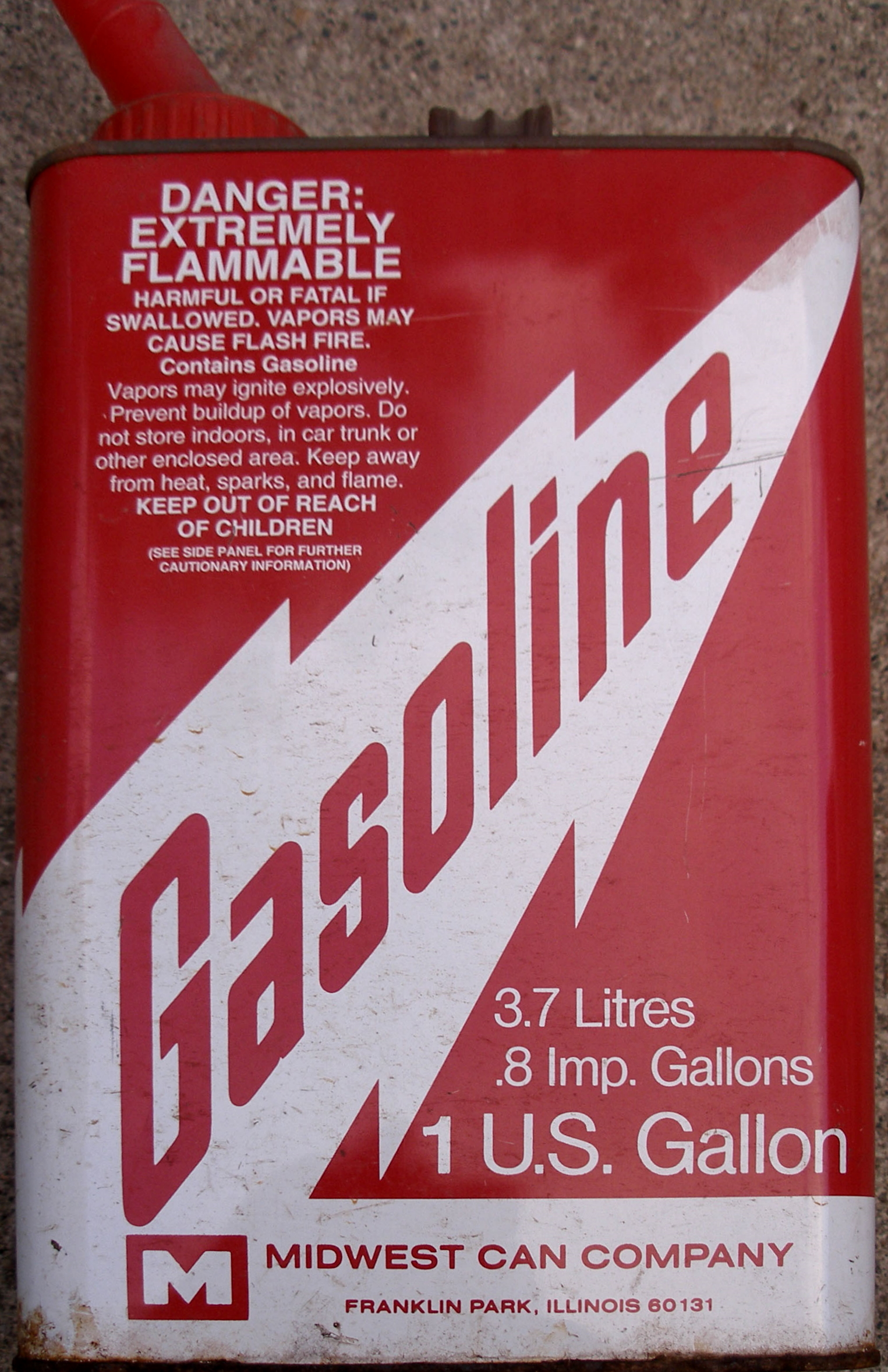 A gas can that has a marked capacity of one U.S. gallon or 0.8 Imperial gallons or 3.7 litres. This can was purchased near the U.S.-Canadian border. It was manufactured by the Midwest Can Company.